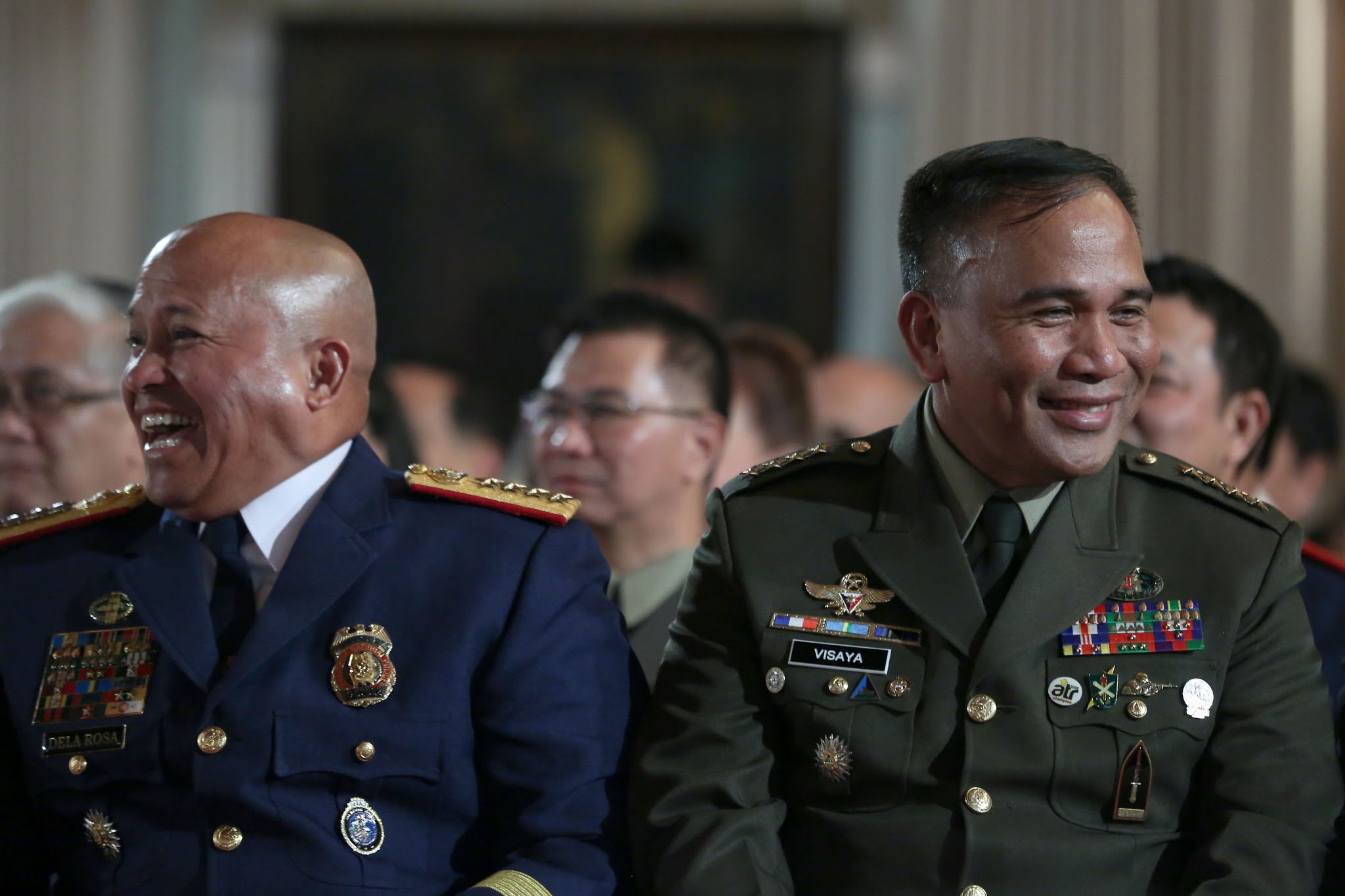 Philippine National Police Director General Ronald Dela Rosa and Armed Forces of the Philippines Chief of Staff Ricardo Visaya share a light moment during the 2016 Metrobank Foundation's Outstanding Filipinos awarding ceremony in Malacañang's Rizal Hall on September 12.